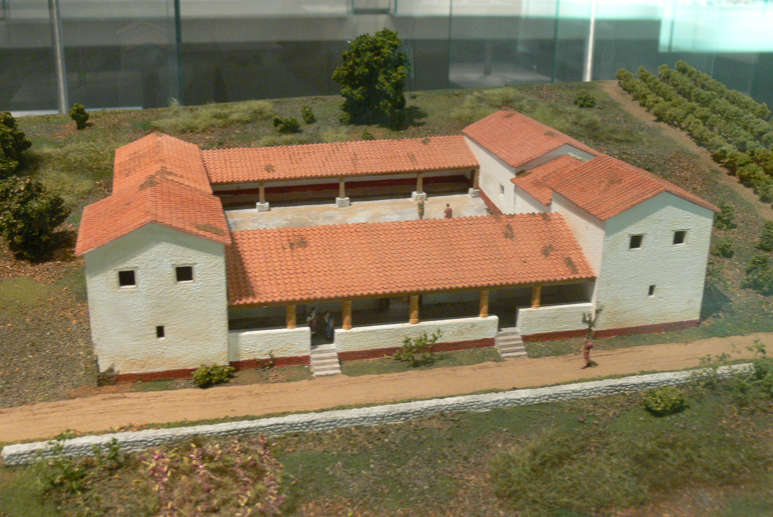 German National Museum ( Nuremberg / Germany ). Model of an ancient Roman villa near Weinbergshof ( Treuchtlingen / Bavaria ).